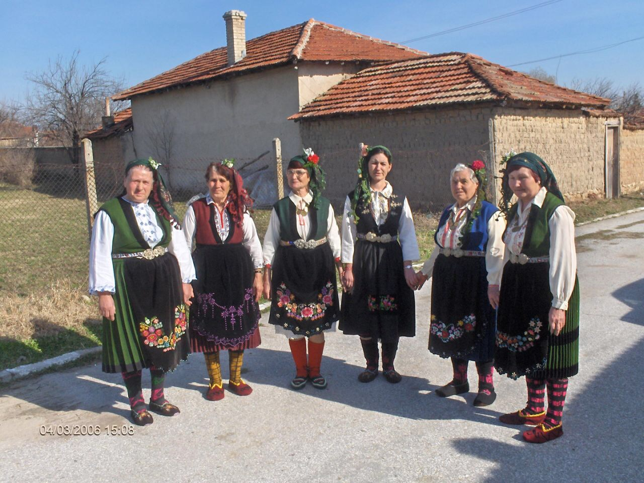 Village women in traditional costume